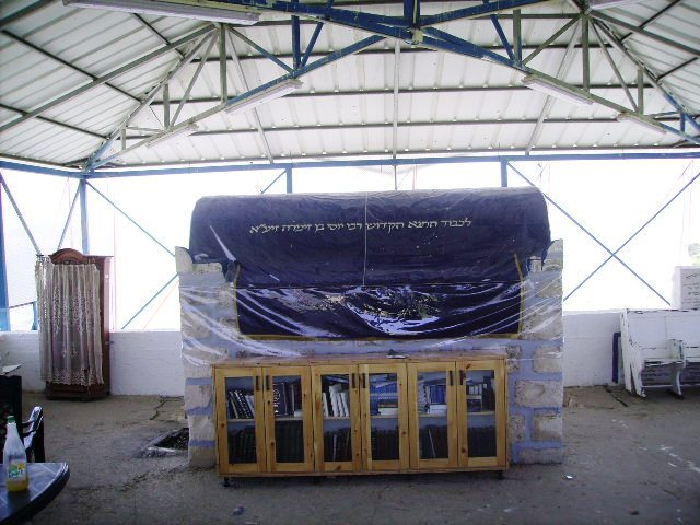 Tomb of the Tana Rabbi Yossi Ben Zimra Moshav Kerem Ben Zimra